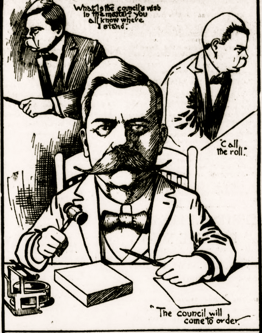 Pomeroy Wills Powers, known as P.W. Powers, (1853–1916) was an attorney and property developer in Kansas City, Kansas, and Los Angeles, California, where he was president of the City Council in 1900–02. This is a cartoon by an artist named Culver in the Los Angeles Herald (work for hire).